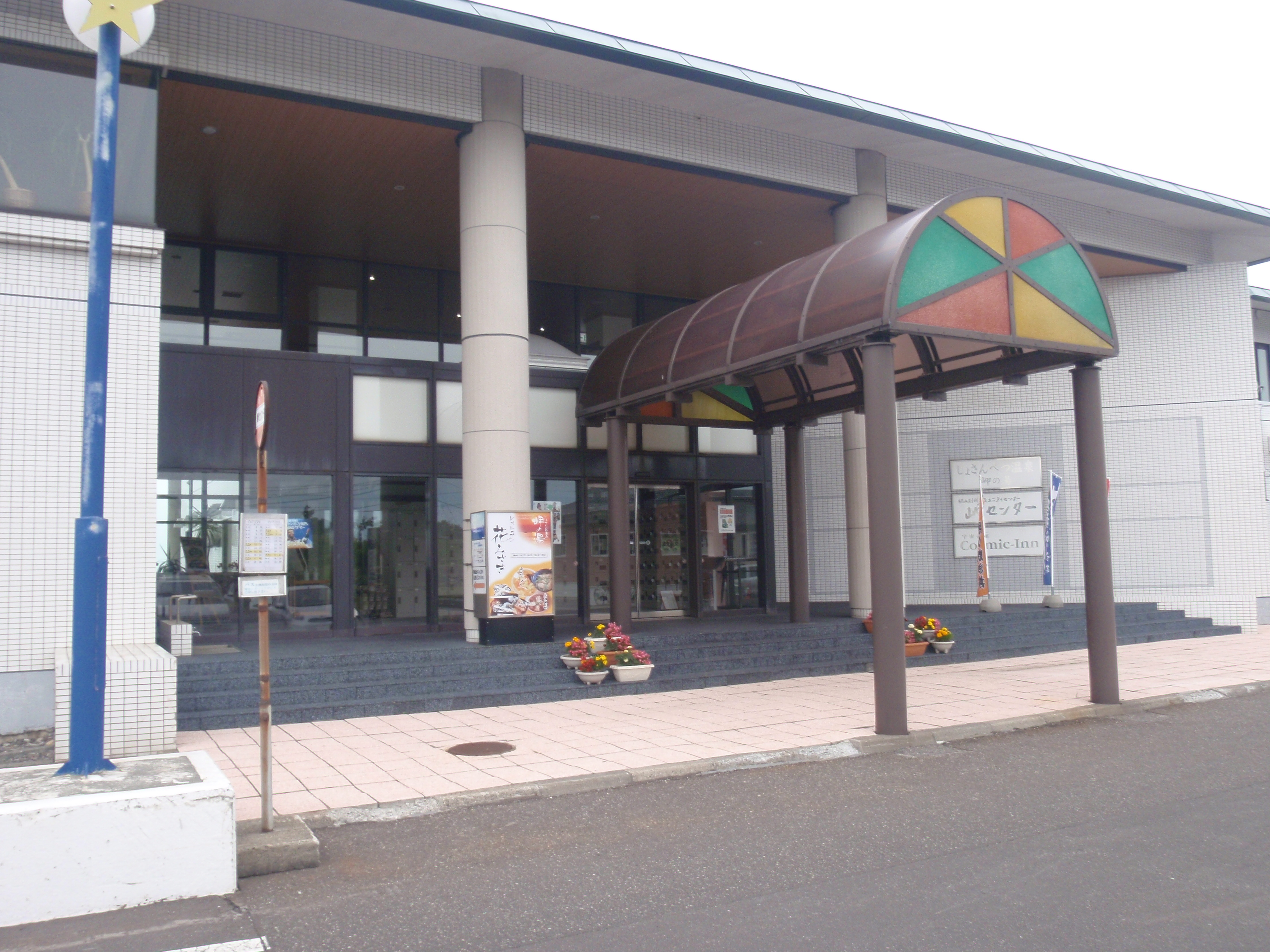 Shosanbetsu Onsen Hotel Misaki no Yu